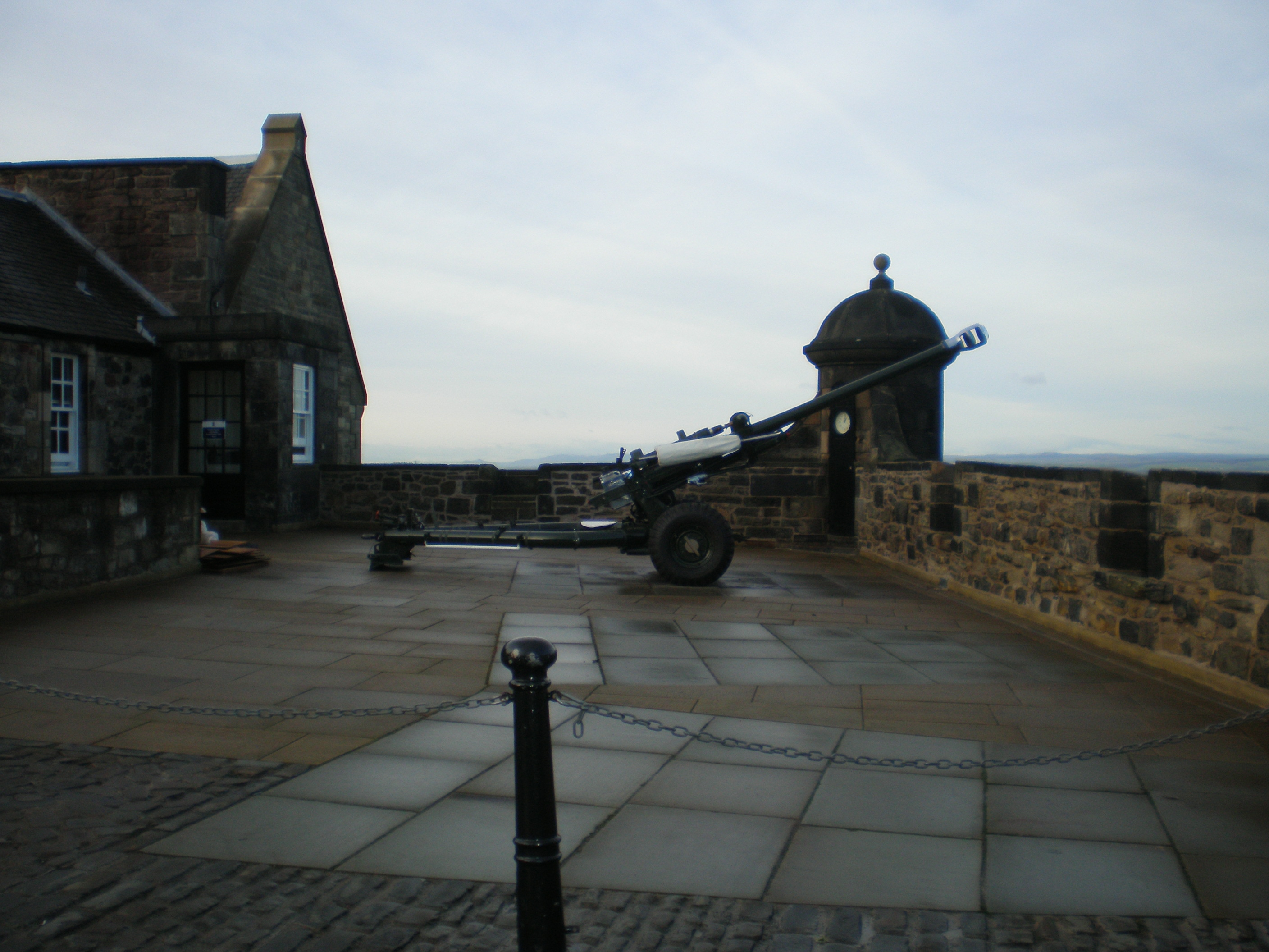 The one o'clock cannon at Edinburgh Castle.